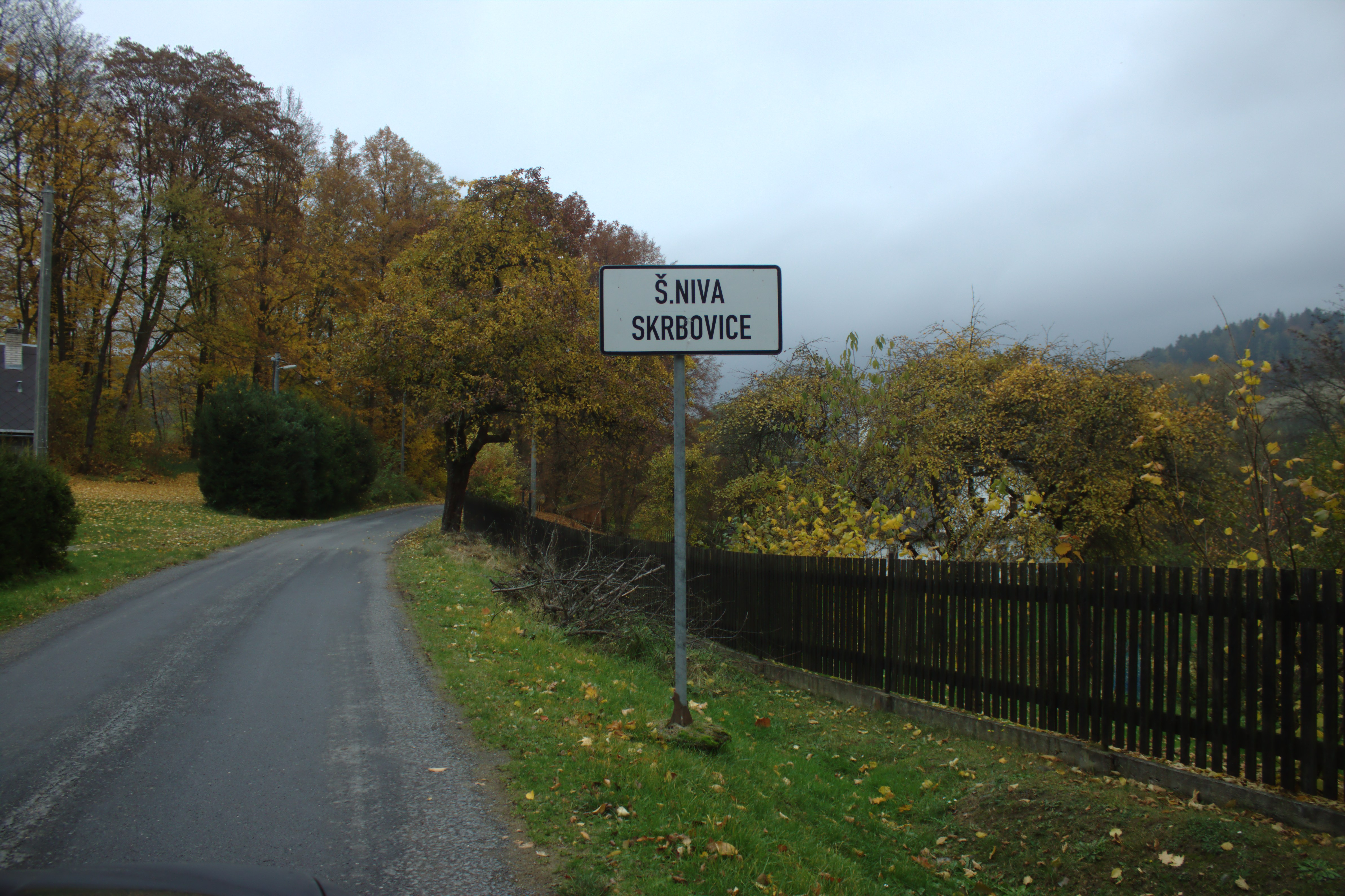 Southern edge of the village of Srkbovice, Moravian-Silesian Region, CZ